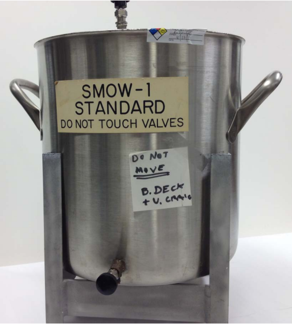 "Original container of SMOW-1 water (now called VSMOW). Note the lower name below "Do Not Move". "V. Craig" is Valerie Craig, wife of Harmon Craig, and she assisted in the collection and preparation of the RM."